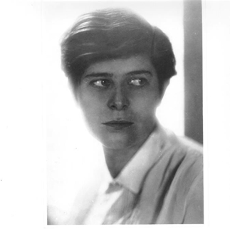 Claire Beck Loos self-portrait, late 1920's